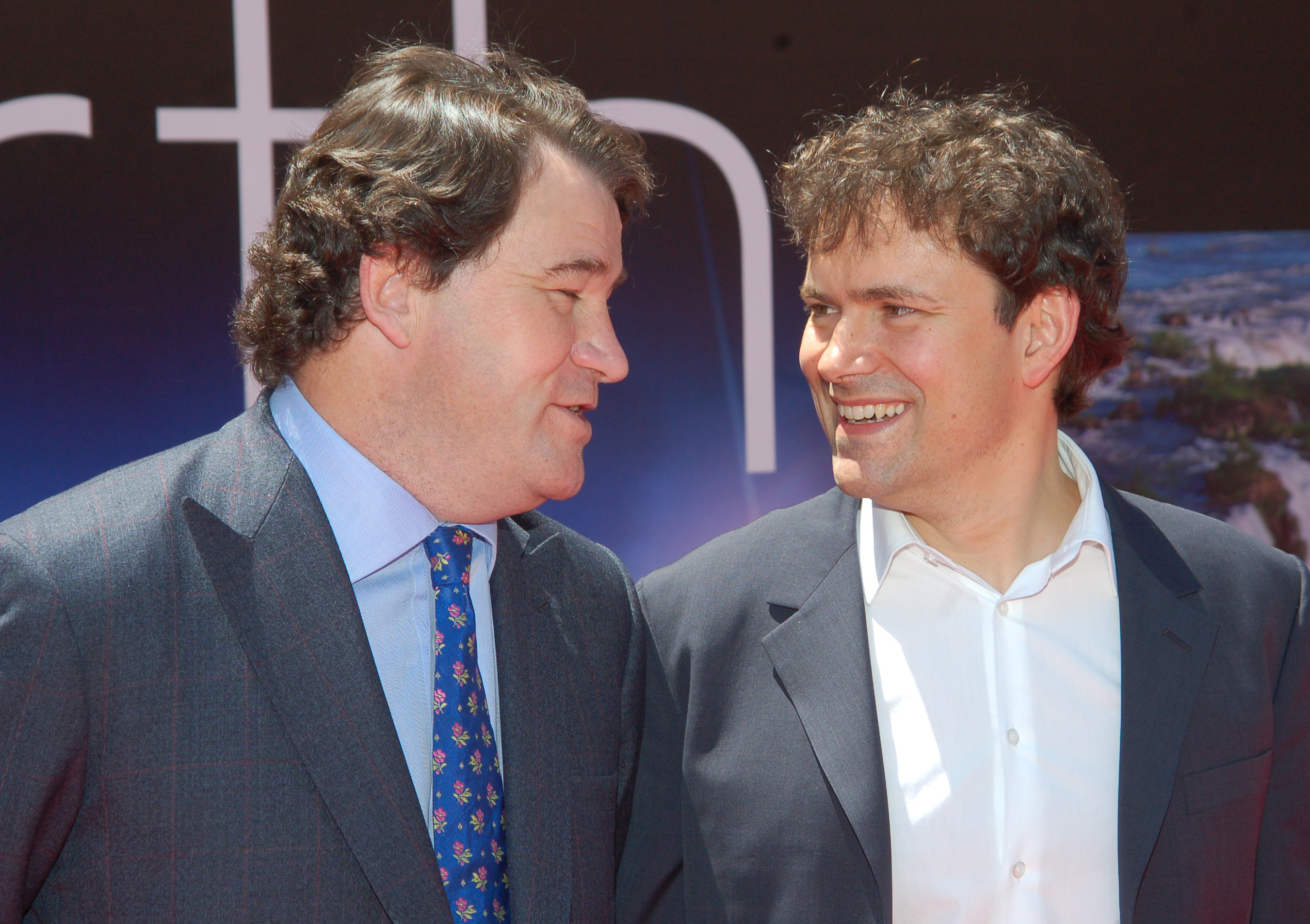 Alastair Fothergill (left) and Mark Linfield at the premiere for Earth